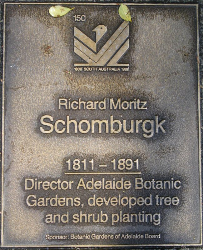 Jubilee 150 Walkway Plaque commemorating xx